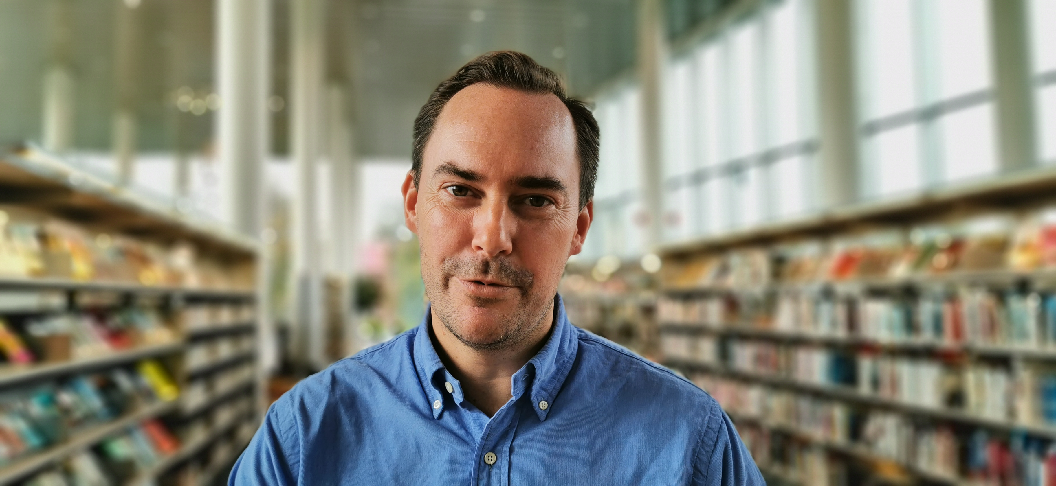 Martin Nilsson holds the Pi Matrix memory test World Record